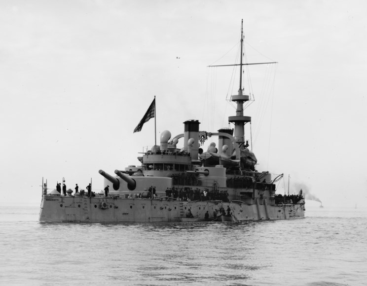 USS Massachusetts (BB-2) seen from the rear in 1898